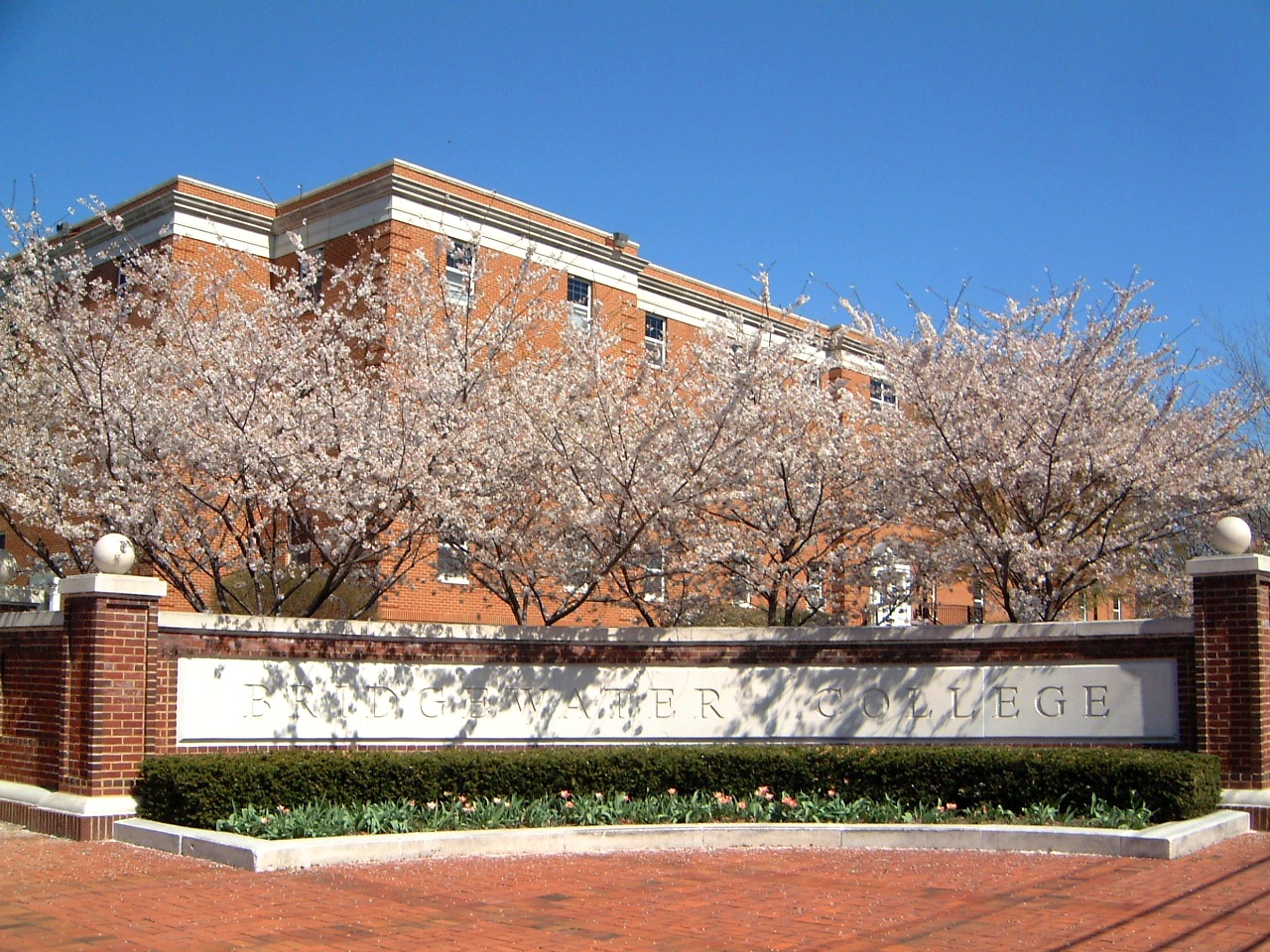 College gate with cherry trees, Bridgewater College, Virginia.